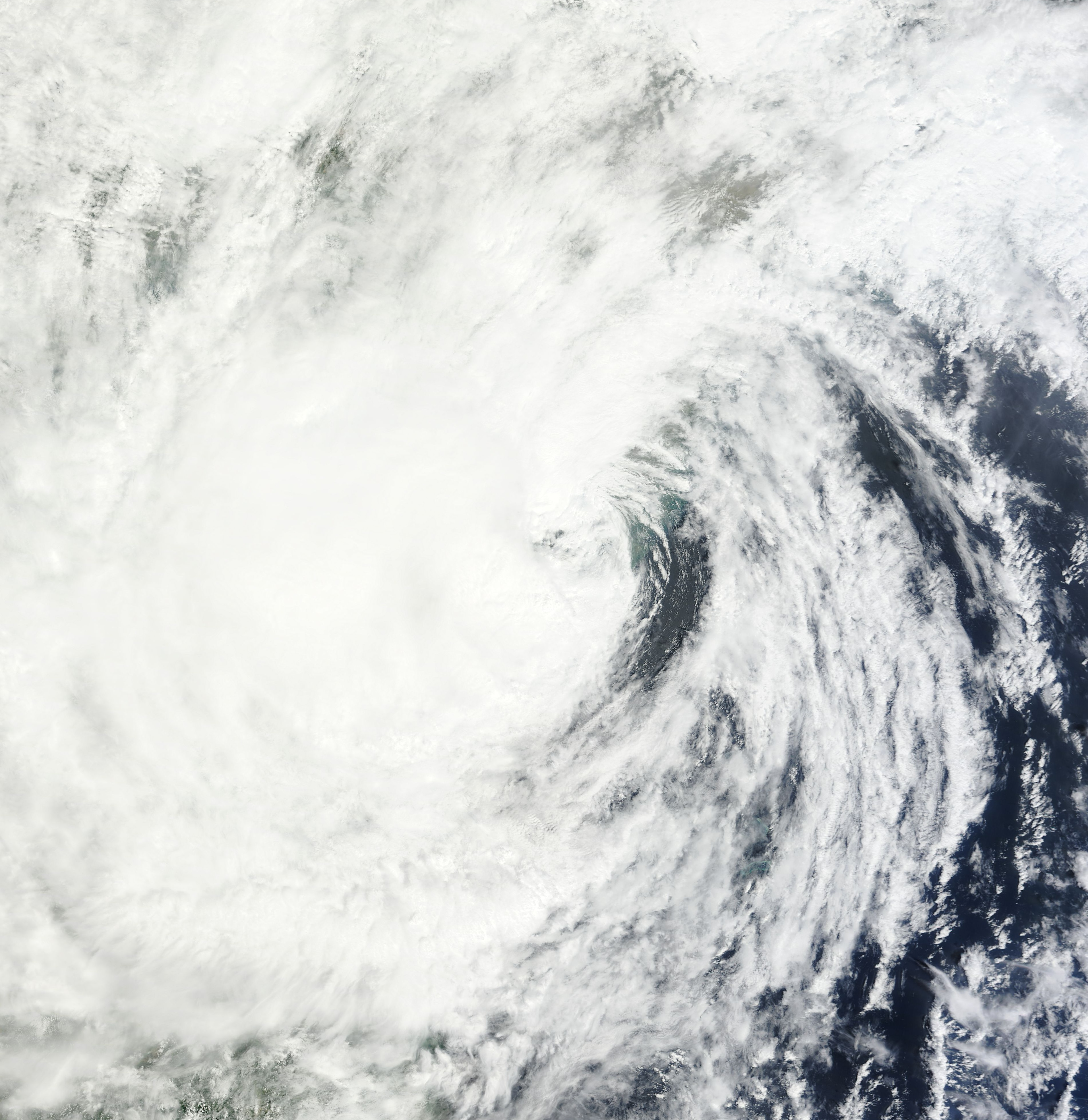 Tropical Storm Nalgae making landfall over Hainan, China on October 4, 2011.